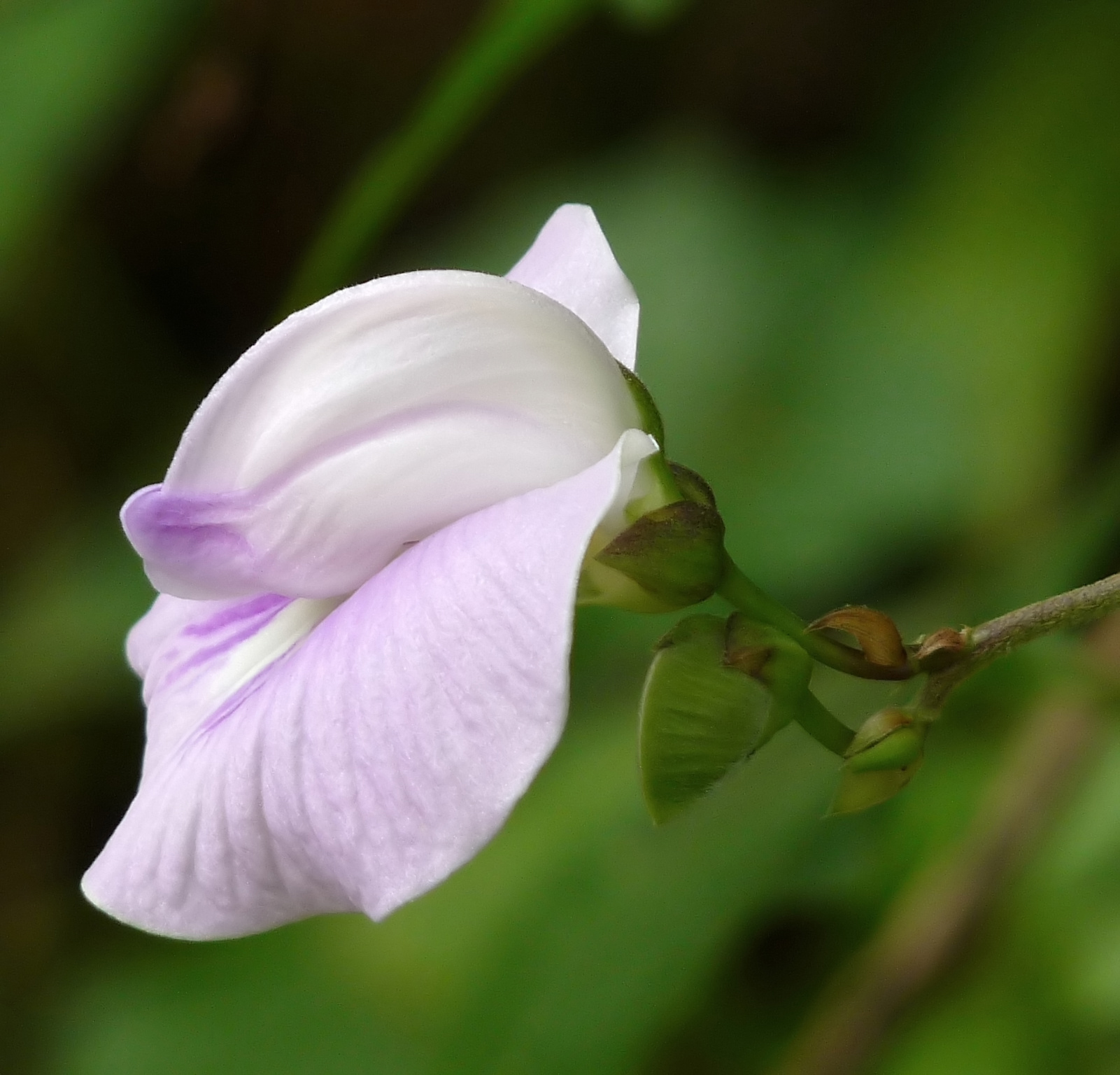 Centrosema pubescens, The butterfly pea, also known as Centro is part of the genus Centrosema belonging to the family of leguminous dicot plants. Centro grows roughly 40–45 cm in height and is typically recognized for its large lilac colored flowers covered in violet veins. This plant is also very leafy and hairy, especially on its neither surface. One of the most important parts of this plant is its seeds, which are located in a flat, long, dark brown pod containing up to 20 seeds. These seeds are round and dark brown in color when ripe. It is a climbing or prostrate herb, often forming tangled mats. Stems are slender and hairy. Leaves are trifoliate with leaflet oblong to ovate, 3-9 x 1.5-5 cm. The compact inflorescences are several-flowered, the standard-petal being blue to purple with darker veins and yellow-tinged, up to 4 x 3 cm, velvety outside, and with a spur scarcely 1 mm long. The fruits, up to 17 cm long and 7 mm broad, are ribbed near the sutures, with numerous seeds up to 5 x 3 x 2 mm and red-brown with black streaks. It is native to South and Central America where up to 50 of its varied natural species can be found.